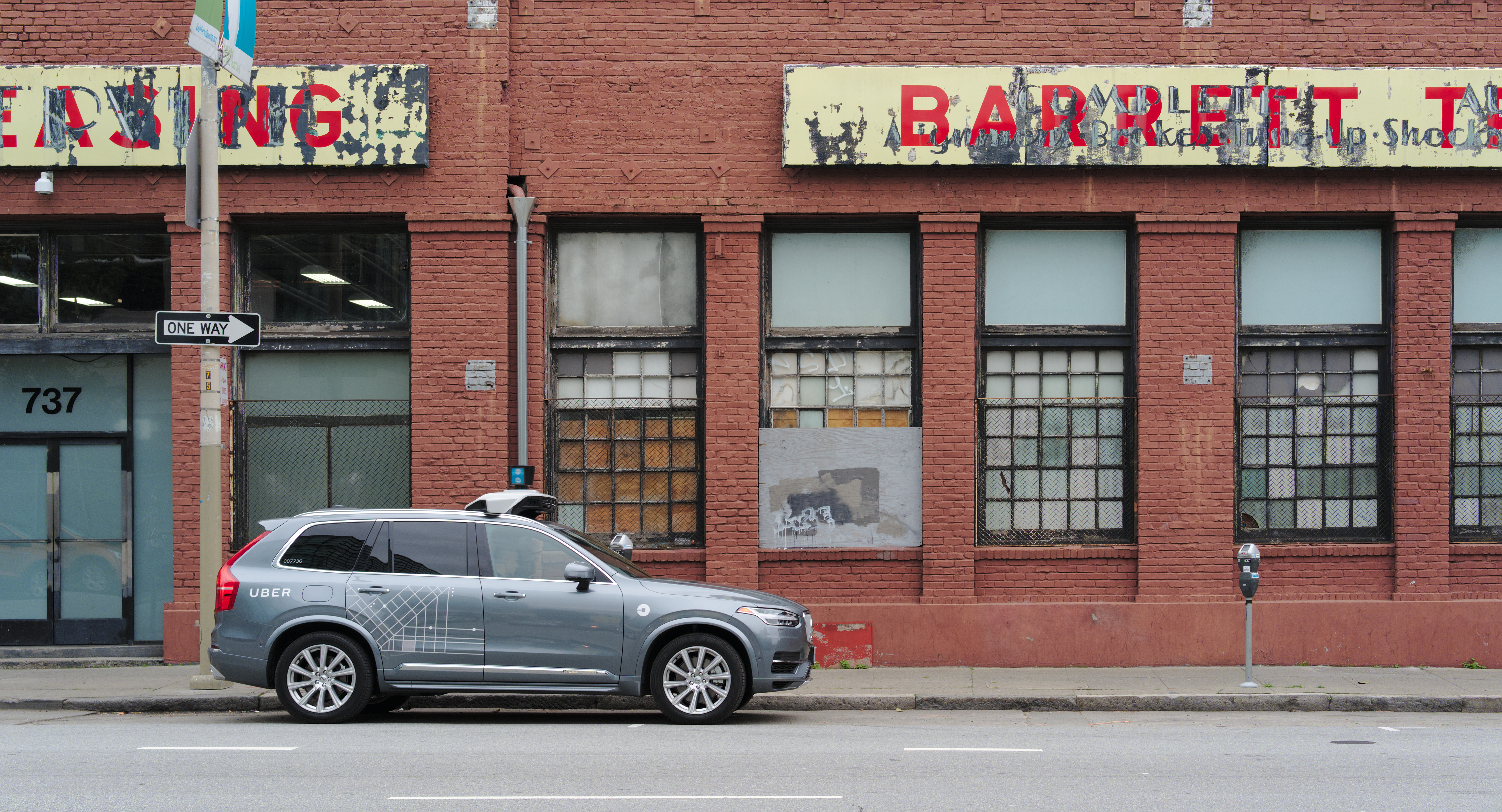 A self driving Volvo XC90 outside 737 Harrison, the unmarked headquarters of Otto, an autonomous trucking company acquired by Uber in 2016.